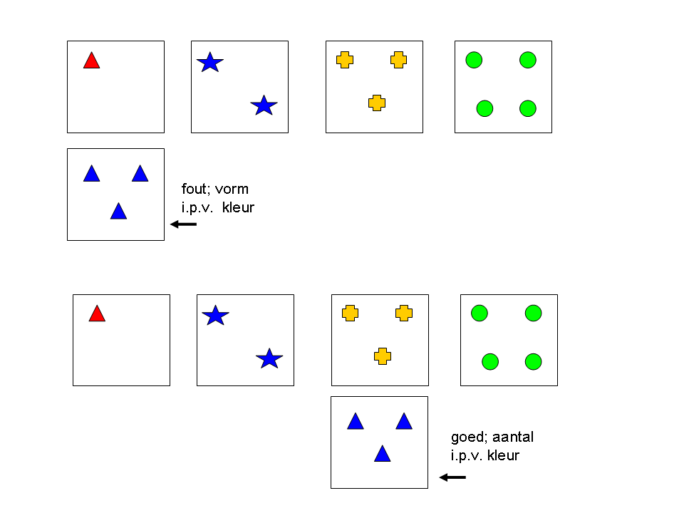 Example of WCST with incorrect (above) and good (below) trial.